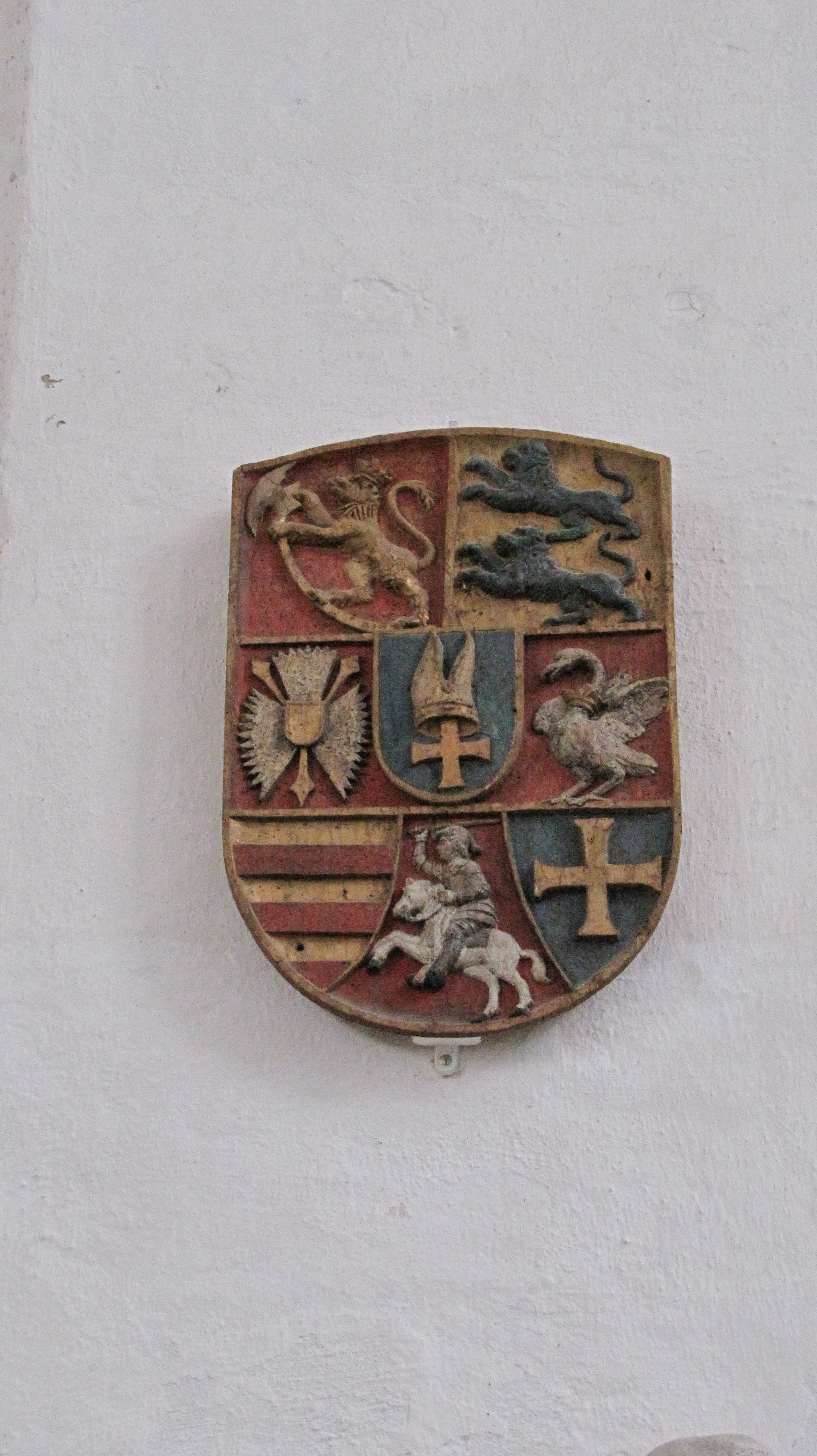 Coat of Arms of Prince Bishop August Friedrich von Schleswig-Holstein-Gottorf in Lübeck Cathedral